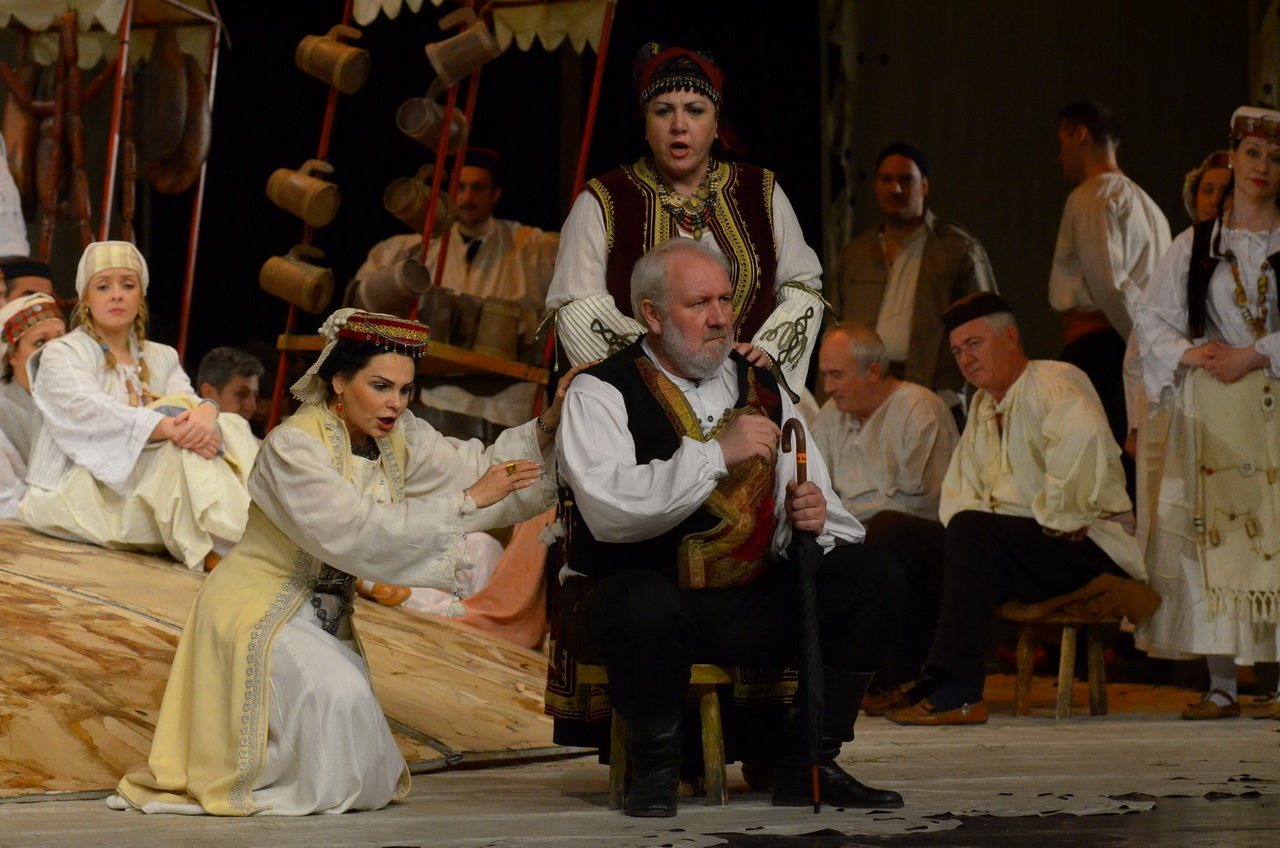 "Ero the Joker" (literally: "Ero from the other world"), a comic opera in three acts by Jakov Gotovac, with a libretto by Milan Begović based on a folk tale. Opera of the SNT, Novi Sad, 2013/14; Svitlana Dekar, Branislav Jatić, Marina Pavlović Barać Srpski (latinica): „Ero s onoga svijeta”, komična opera u tri čina, komponovao Jakov Gotovac; libreto napisao Milan Begović; Opera SNP-a, Novi Sad 2013/14; Svitlana Dekar, Branislav Jatić, Marina Pavlović Barać Српски (ћирилица): „Еро с онога свијета“, комична опера у три чина, компоновао Јаков Готовац; либрето написао Милан Беговић; Опера СНП-а, Нови Сад 2013/14; Свитлана Декар, Бранислав Јатић, Марина Павловић Бараћ